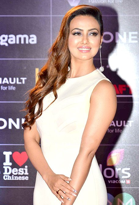 Sana Khan grace the 'GiMA Awards 2016' in April 6, 2016.